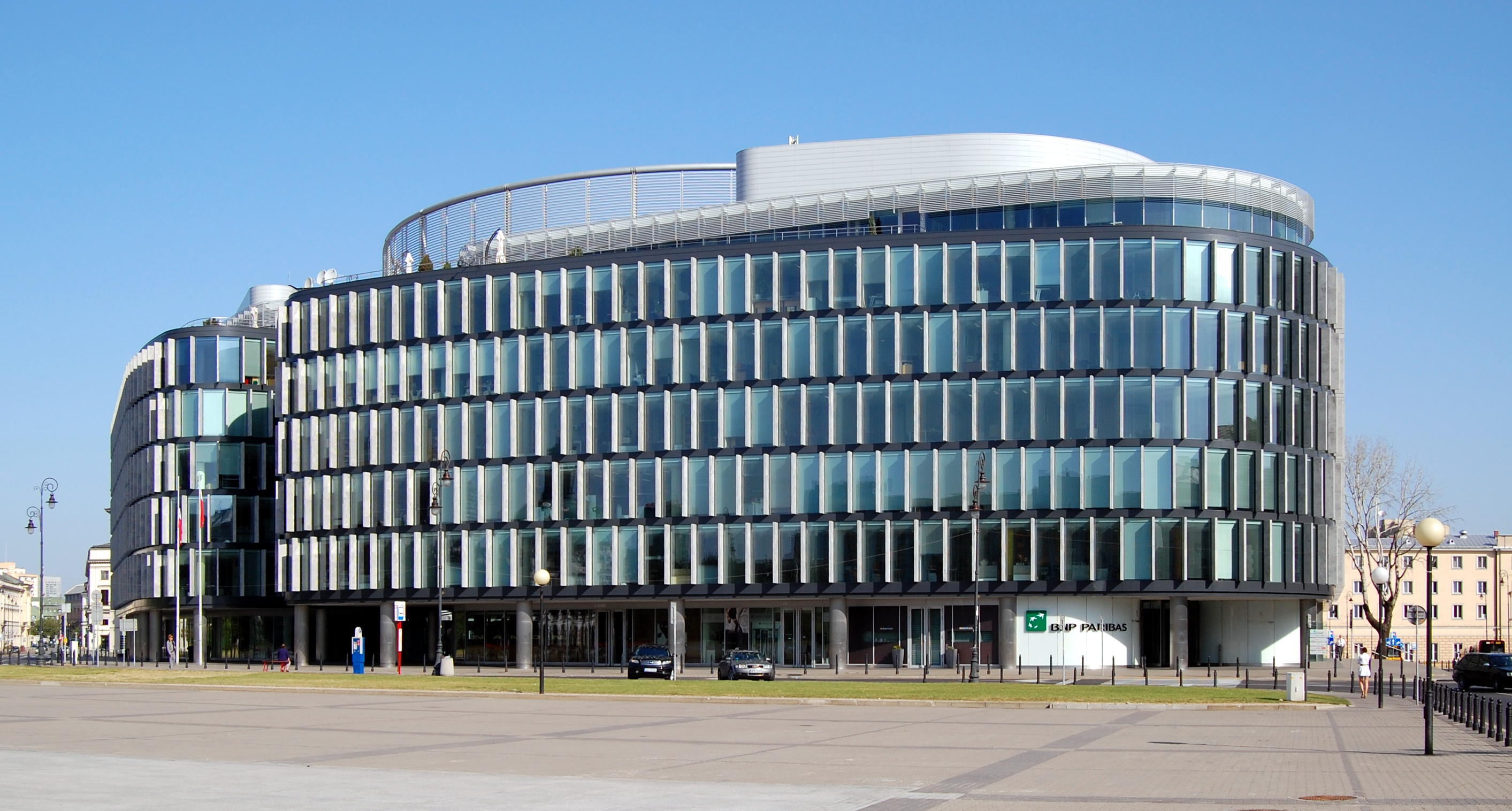 Metropolitan building, Warsaw, Poland by Norman Foster.